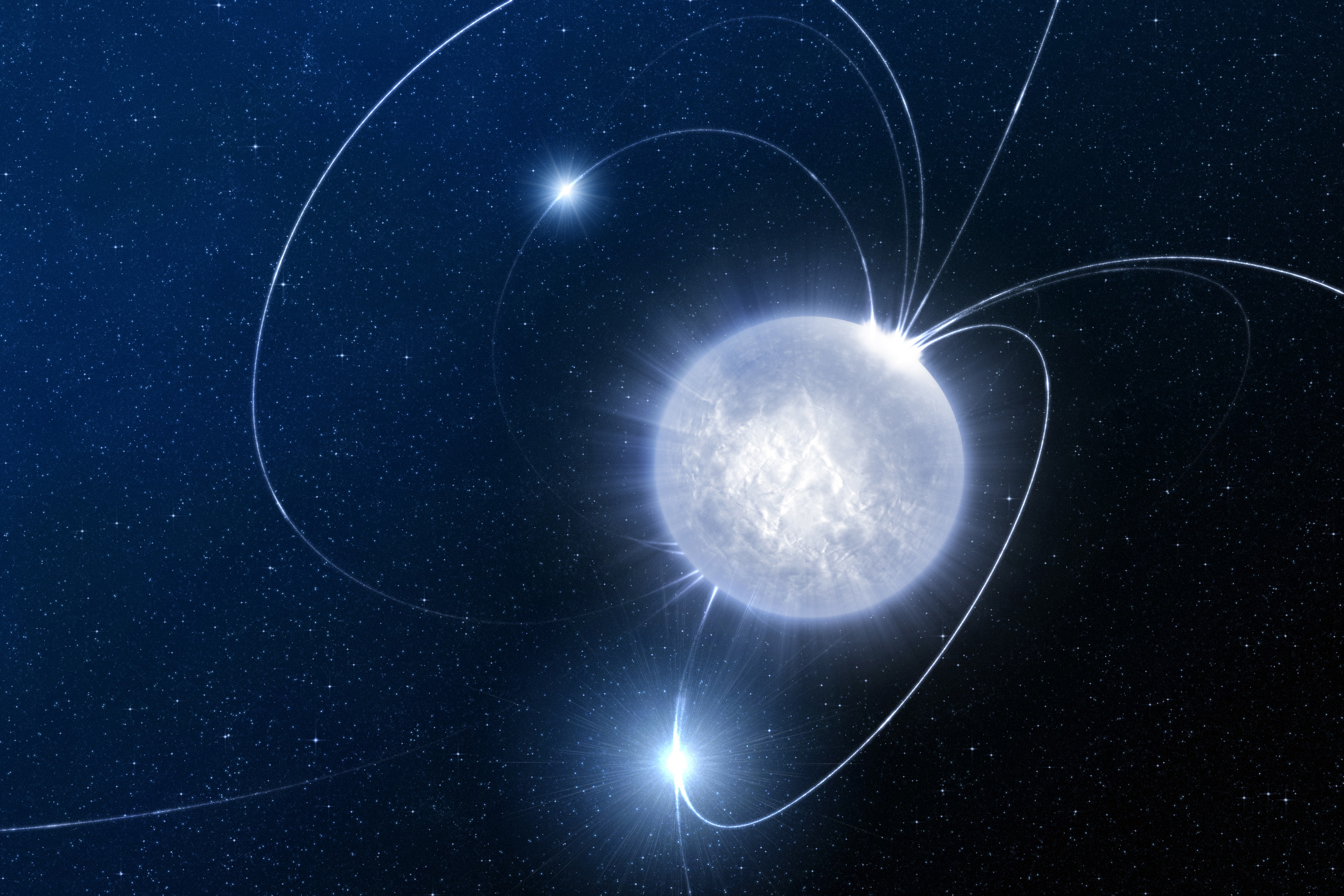 Astronomers have discovered a possible magnetar that emitted 40 visible-light flashes before disappearing again. Magnetars are young neutron stars with an ultra-strong magnetic field a billion times stronger than that of the Earth. The twisting of magnetic field lines in magnetars give rise to starquakes, which will eventually lead to an intense soft gamma-ray burst. In the case of the SWIFT source, the optical flares that reached the Earth were probably due to ions ripped out from the surface of the magnetar and gyrating around the field lines.